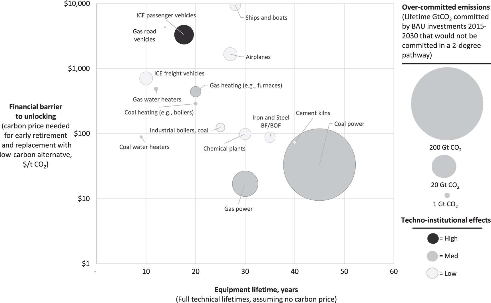 Global assessment of carbon lock-in risks by fuel and sector.